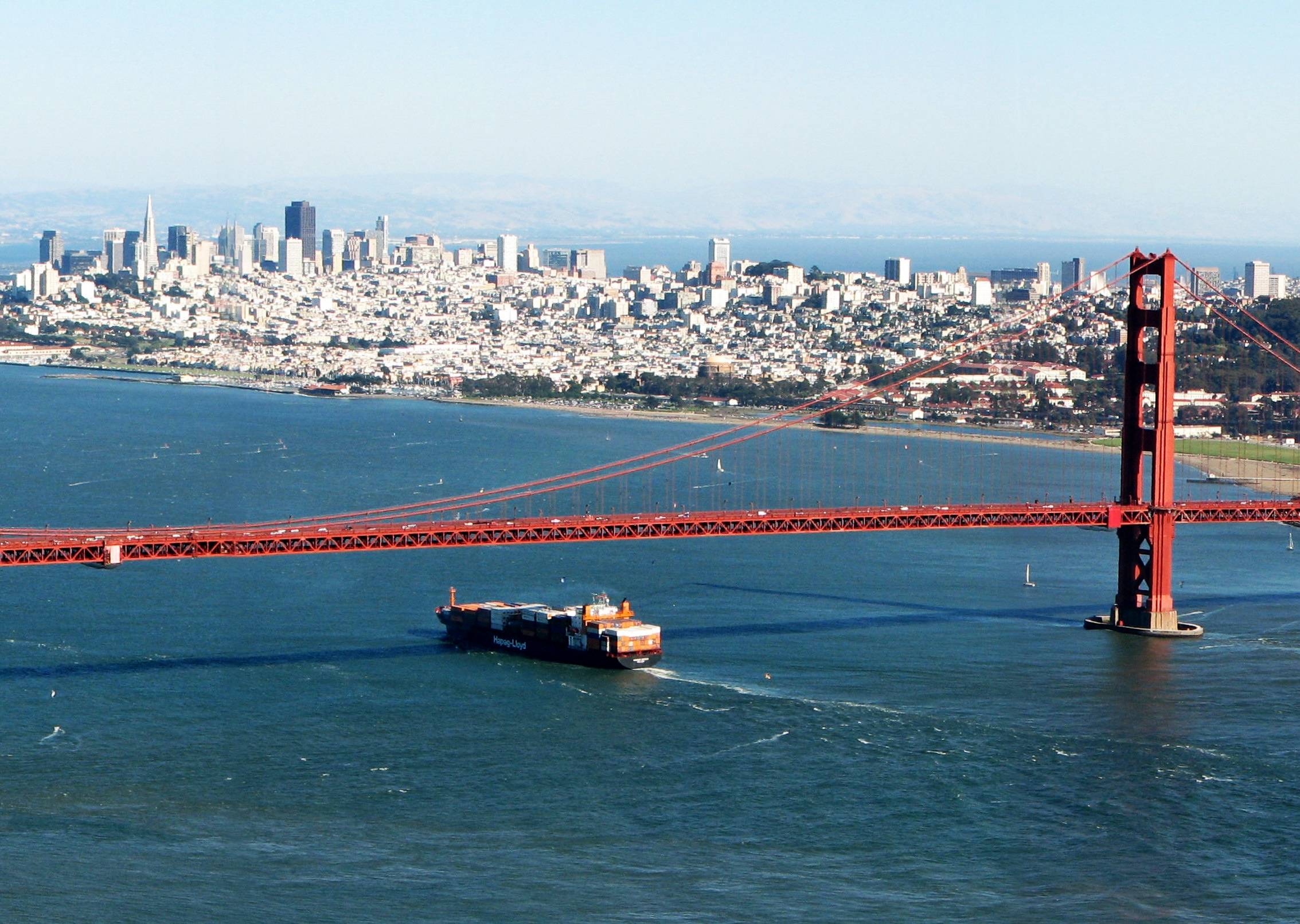 Golden Gate Bridge, San Francisco, California, USA